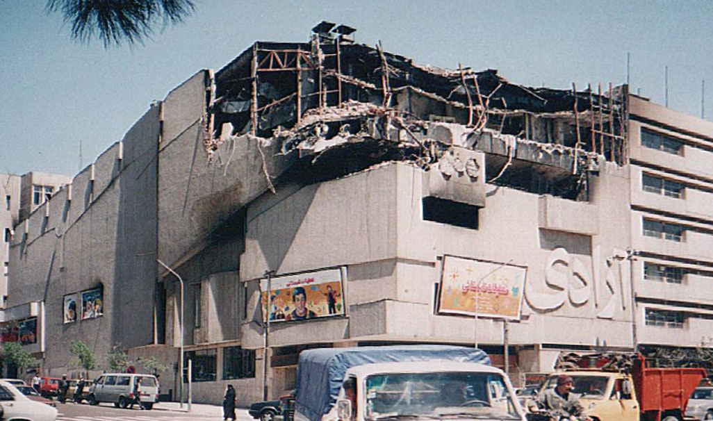 Azadi (Shahre Farang) Cinema, Tehran, After fire incident